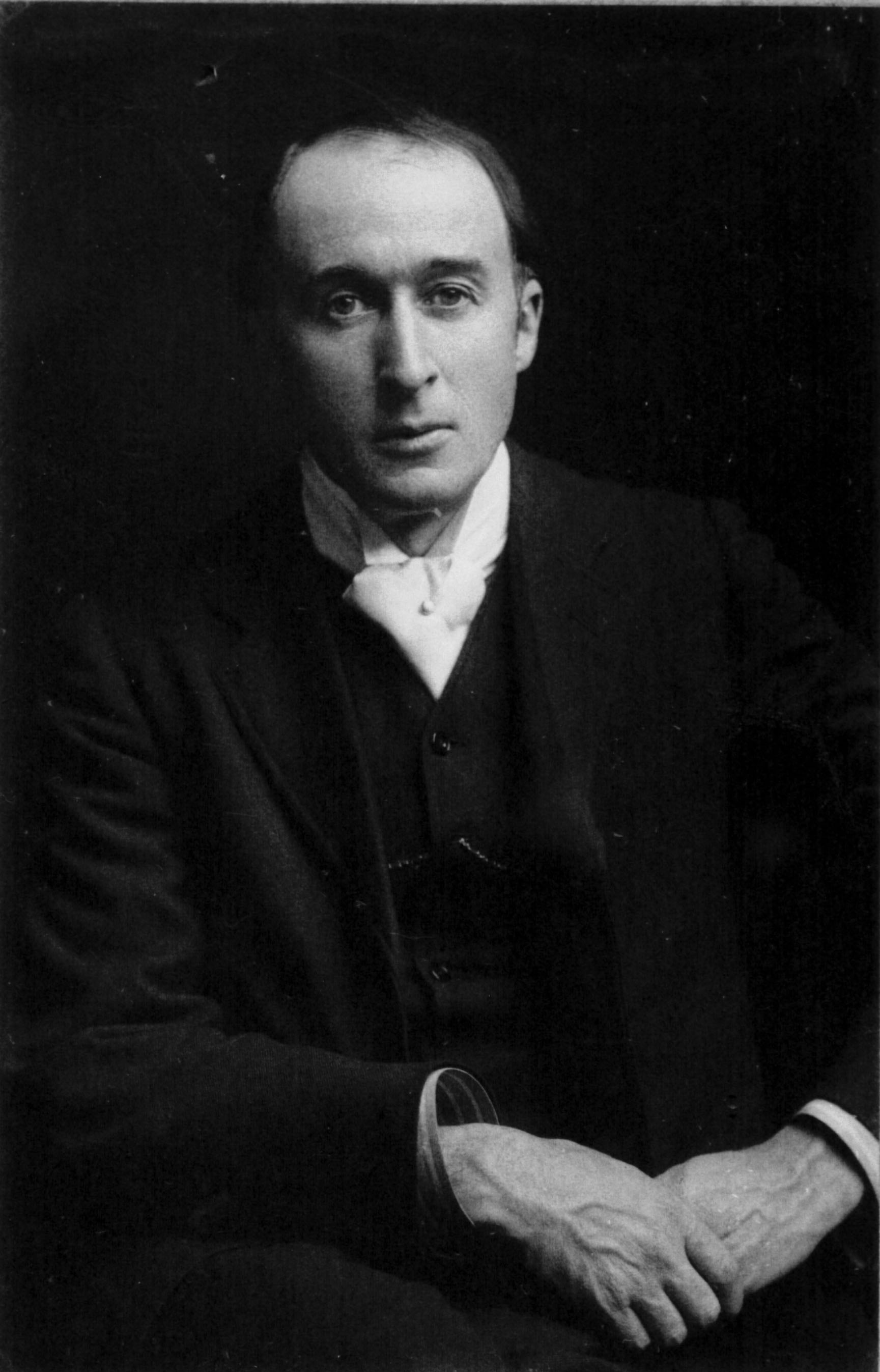 Artist: unknown Date/place: unknown Subject: Frederich Delius Medium: photographic positive, B&W Notes: Composer from United Kingdom. Under the photo is written: "Frederich Delius Minde om en Sommermorgen paa Haukelifjeld" (Frederich Delius memory of a summermorning at mount Haukeli) Persistent URL: [#//bergenbibliotek.no/digitale-samlinger//engelsk/-intro-eng” Original belongs to the Edvard Grieg Archives at Bergen Public Library] Original reference: EGM0022